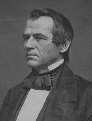 Portrait photograph of Andrew Johnson. This is a retouched picture, which means that it has been digitally altered from its original version. Modifications: cropped, color adjustments.